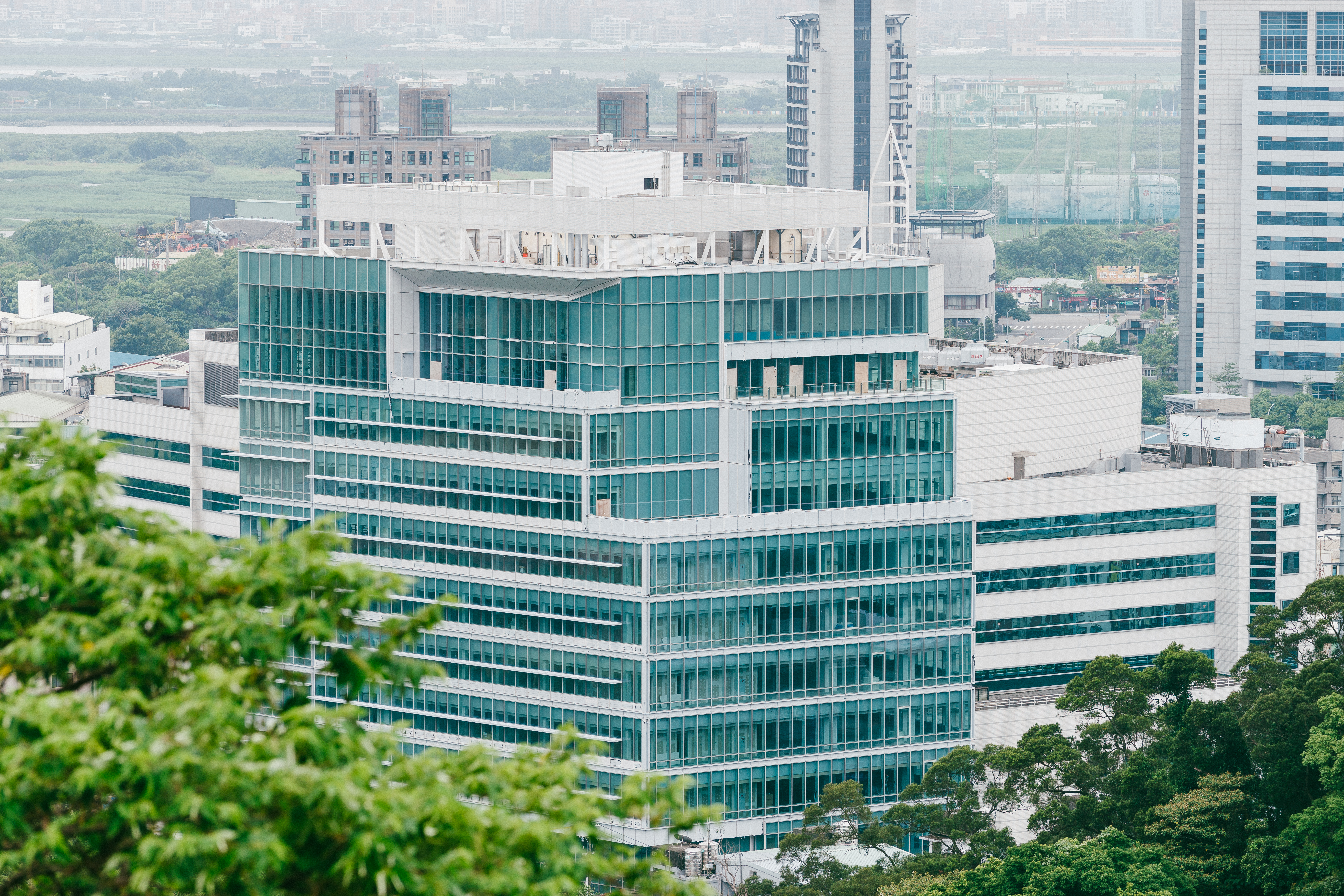 Koo Foundation Sun Yat-Sen Cancer Center.